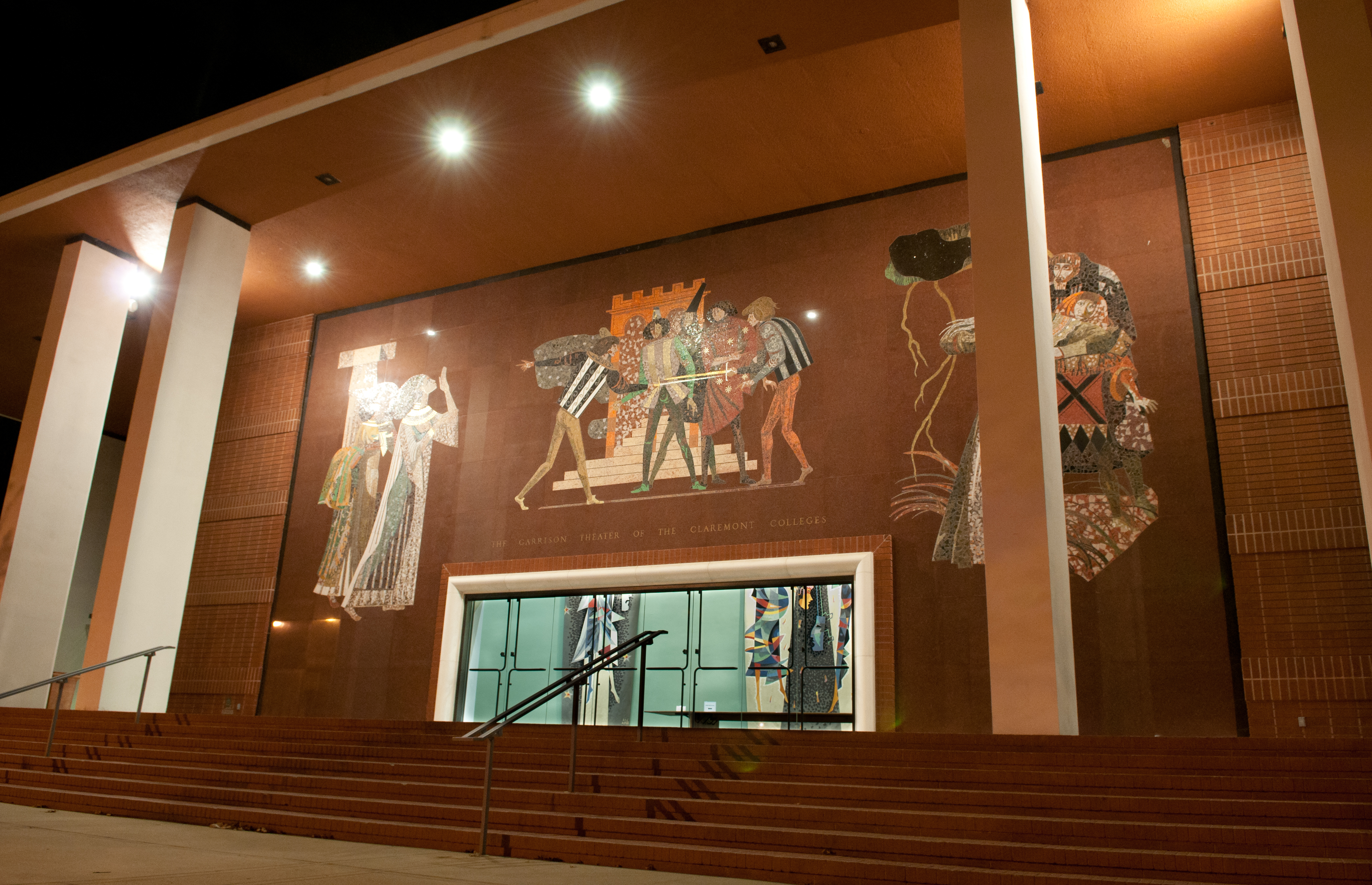 Scripps College for Women